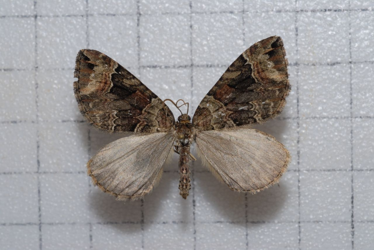 Gonanticlea ochreivittata (Bastelberger, 1909) Endemic Species of Taiwan